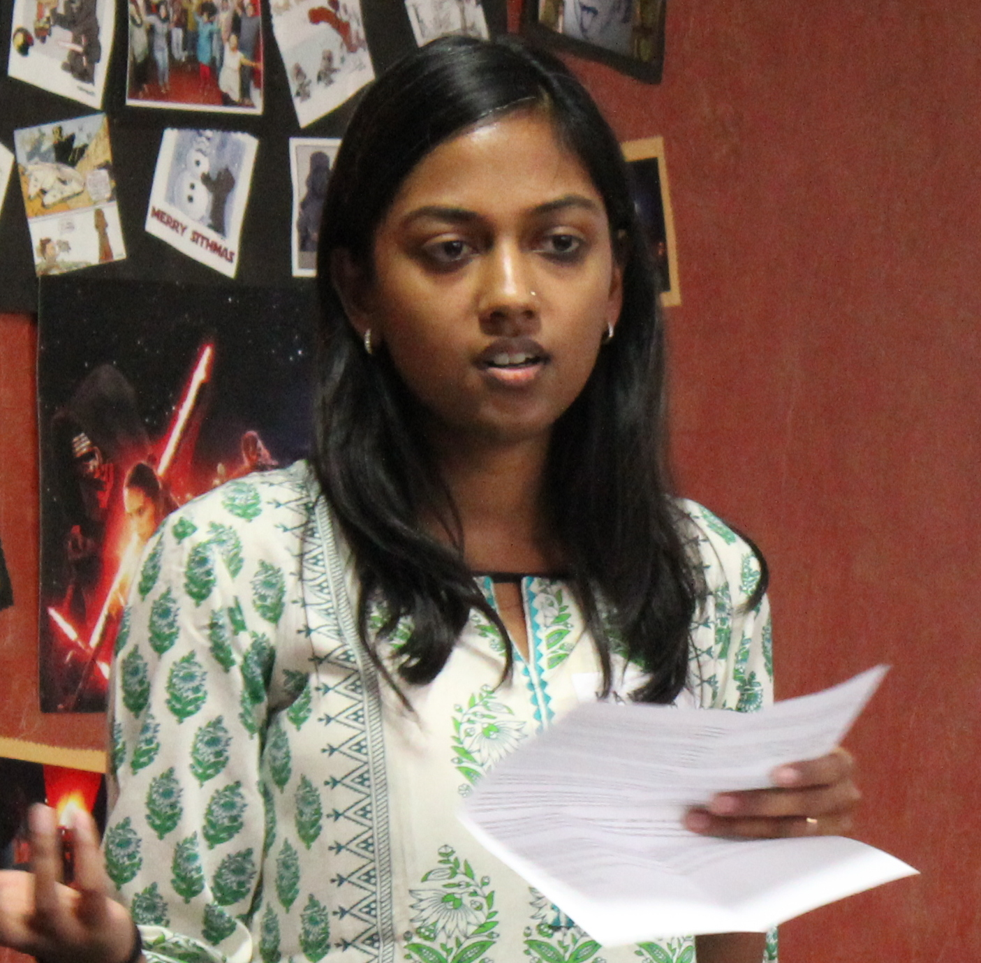 Kavita at Artoo's Panel Discussion on Ground Realities of Lending to Small Enterprises.